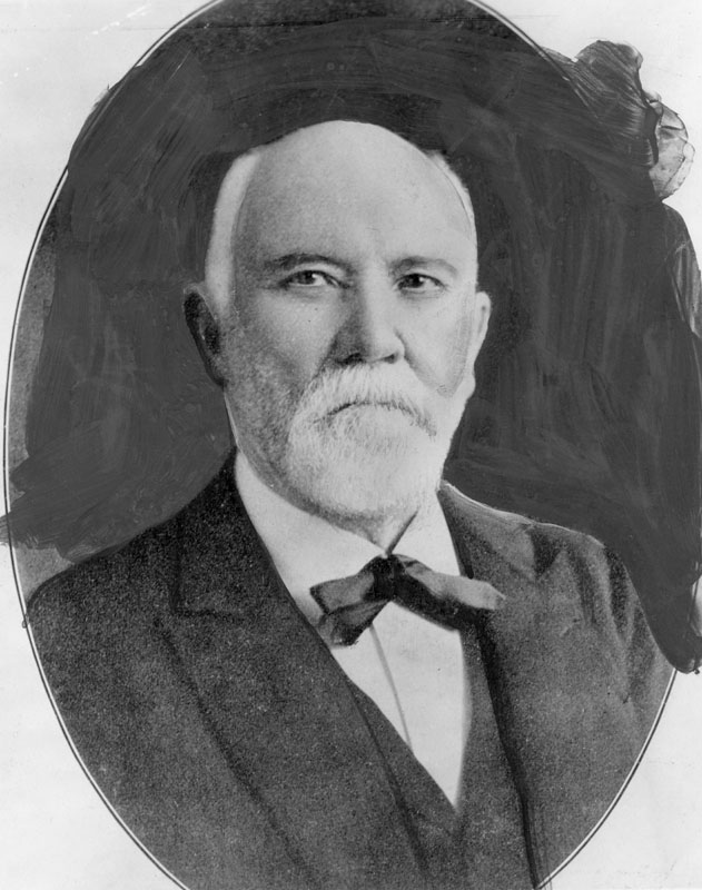 Caption reads, "A. B. Chapman, co-founder of Orange, who helped lay out the townsite in about 1870." Notes: Below this portrait is a brief typewritten description of Chapman. It reads, "...Alabama, Sept. 6, 1829. Graduated from West Point in 1854 and was afterward stationed in Florida, and later at Fort Leavenworth, Benicia, etc. Resigned from the army, studied law and was in practice here with Andrew Glassell for 20 years. He was city and district attorney several terms. In 1879 retired to his ranch in the Santa Anita grant. Married Miss Scott." An article by Art Hewitt included with the image reads, "A poker game gave the city of Orange its name. Al least the story is told that the town's founders and two other early residents of the young city, then called Richland, sat down at a poker table, the winner to pick a new name. The name came from the area's most important crop, even then the Valencia orange. The town itself was founded by two law partners, A. B. Chapman and Andrew Glassell, who received tracts of land as a legal fee. They laid out their townsite in about 1870, dividing their 40 acres into eight five-acre blocks. In the very center they reserved eight acres for the Plaza, still the city's hub. In 1875 when Chapman had the townsite map recorded, they called the community Richland. The change of the name was necessary, and the poker game resulted, because there was another Richland in California."